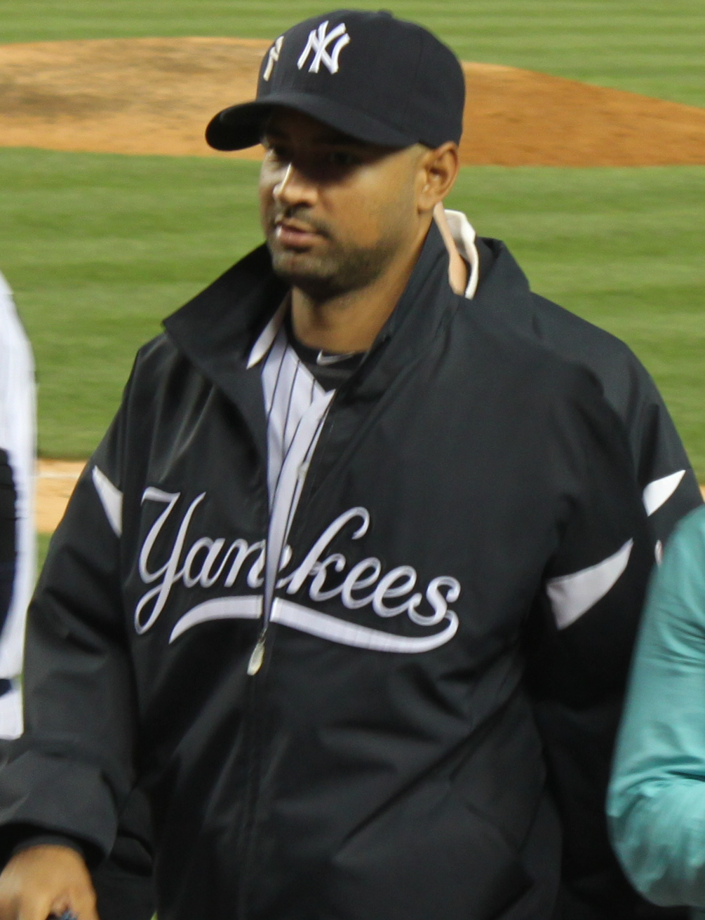 New York Yankees pitcher Cory Wade after a Yankees - Angels game at Yankee Stadium, 2011.